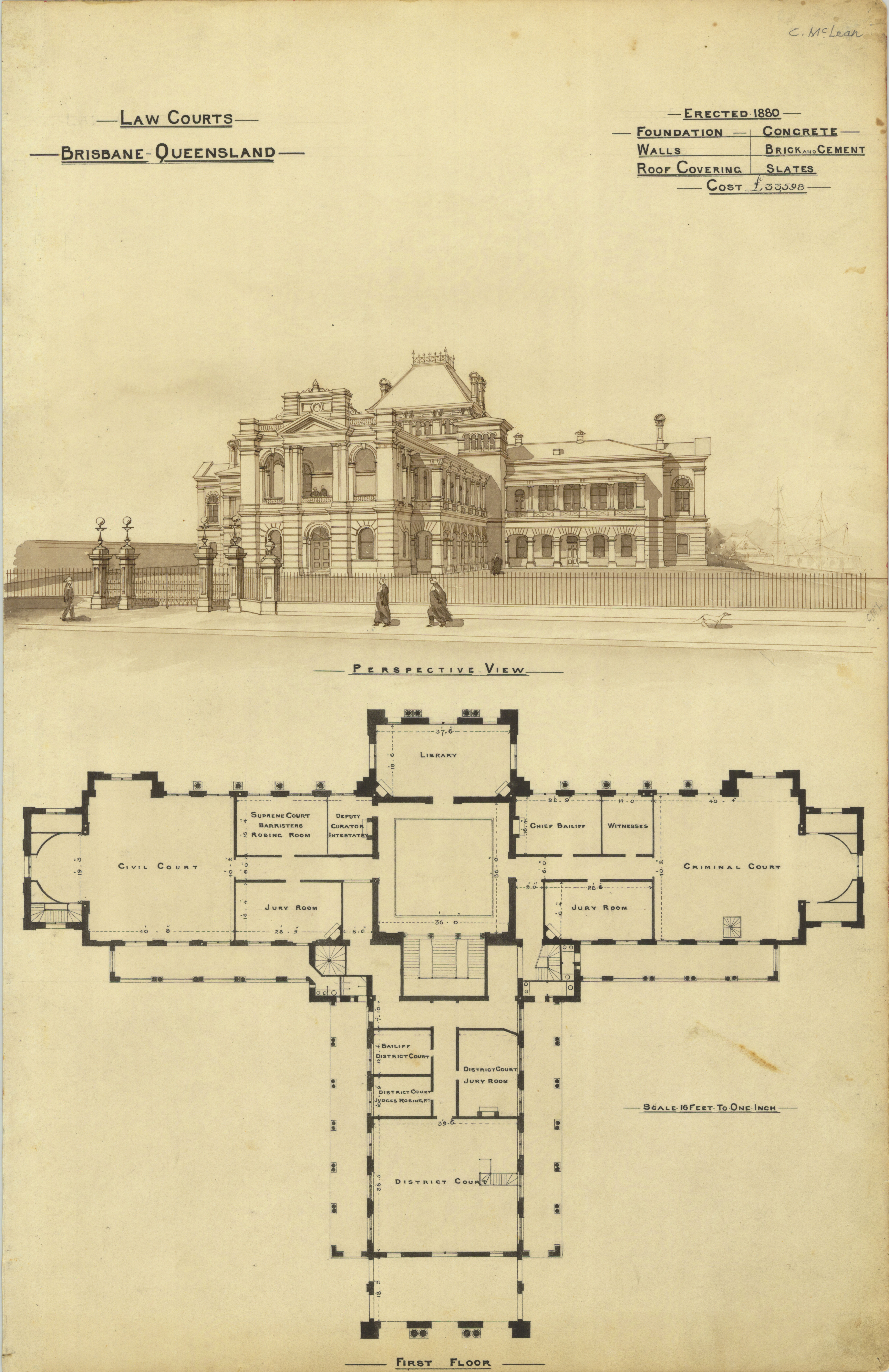 Architectural plans for the Law Courts, Brisbane, constructed 1880, seen from George Street